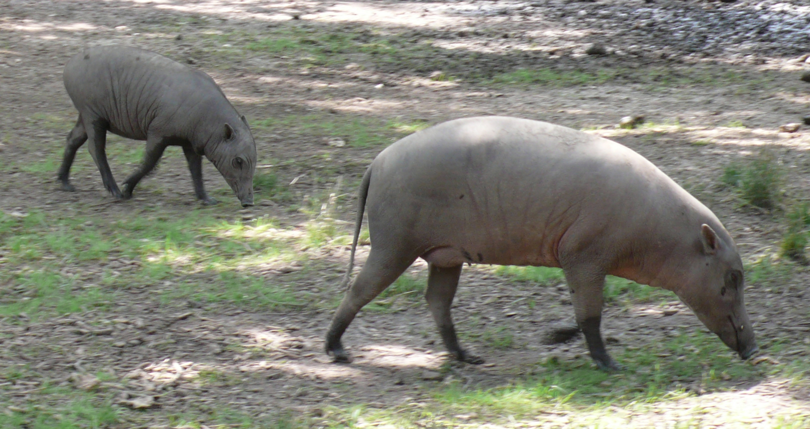 Pair of Babyrousa celebensis, mother and baby